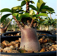 Adenium obesum, characters #2